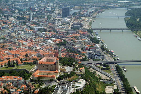 Bratislava, Slovakia, aerial photographgy, castle